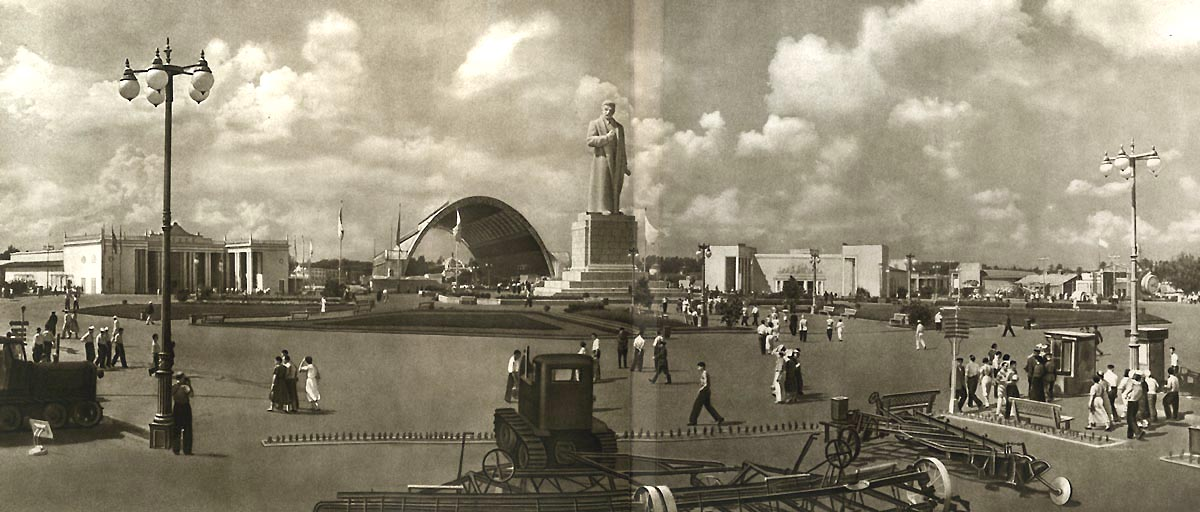 All-Union Exhibition, Main Square (Kolkhoz Square)